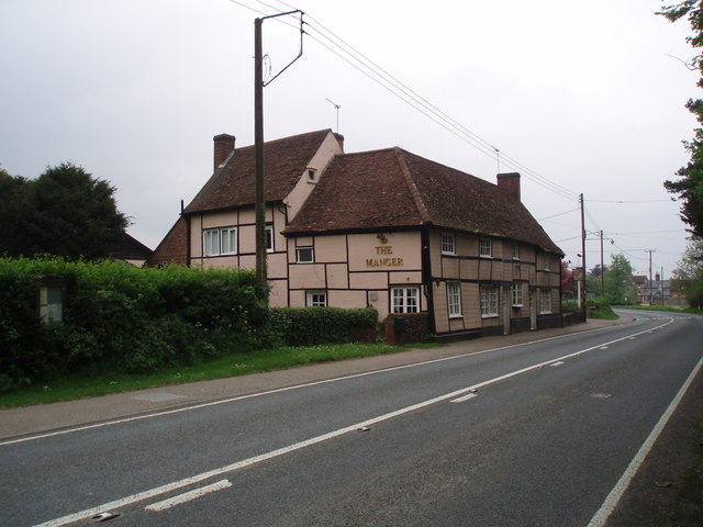 The Manger, Bradfield Combust. Quite an unusual name for a pub in a village with an even more unusual name.